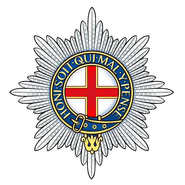 The regimental badge of the Coldstream Guards (CG) of the Guards Division, it is one of the Foot Guards regiments of the British Army.